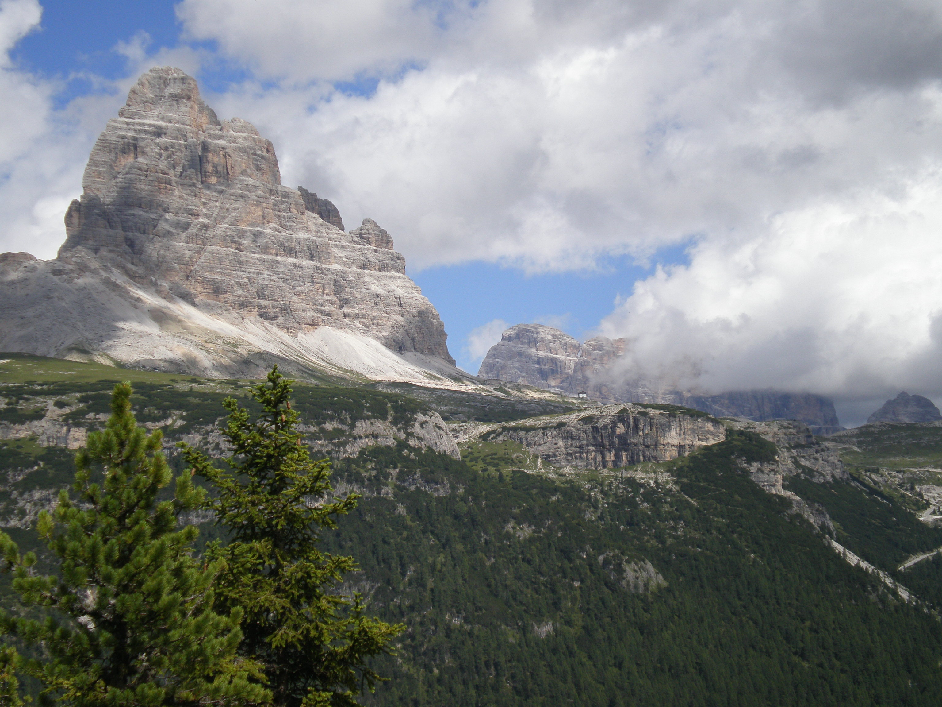 The back of Lavaredo.